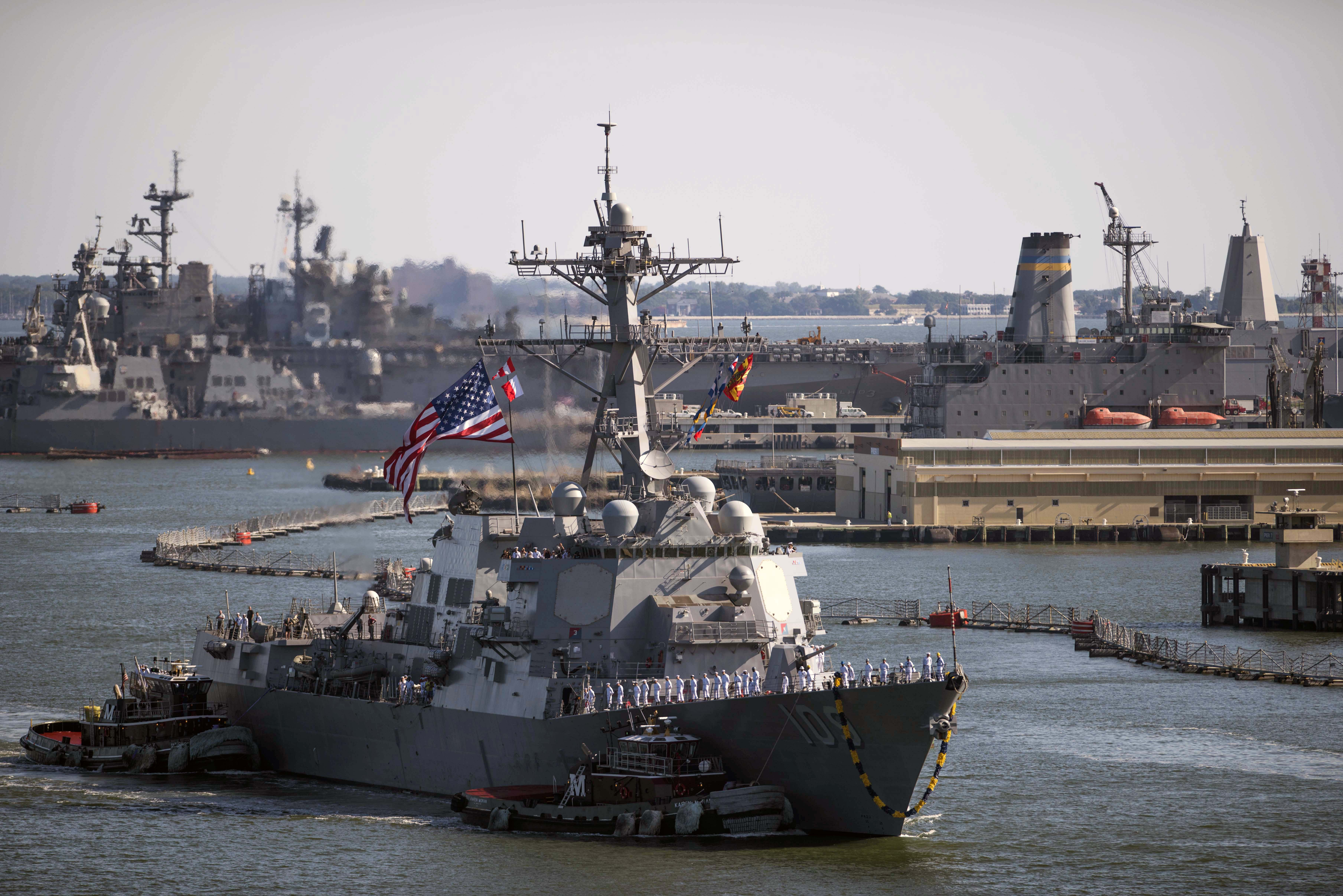 150828-N-UY653-154 NORFOLK, Va. (Aug. 28, 2015) The guided-missile destroyer USS Jason Dunham (DDG 109) returns to its homeport of Naval Station Norfolk following a seven-month deployment to the U.S. 4th and 6th fleet areas of responsibility. (U.S. Navy photo by Mass Communication Specialist 3rd Class R. Utah Kledzik/Released)